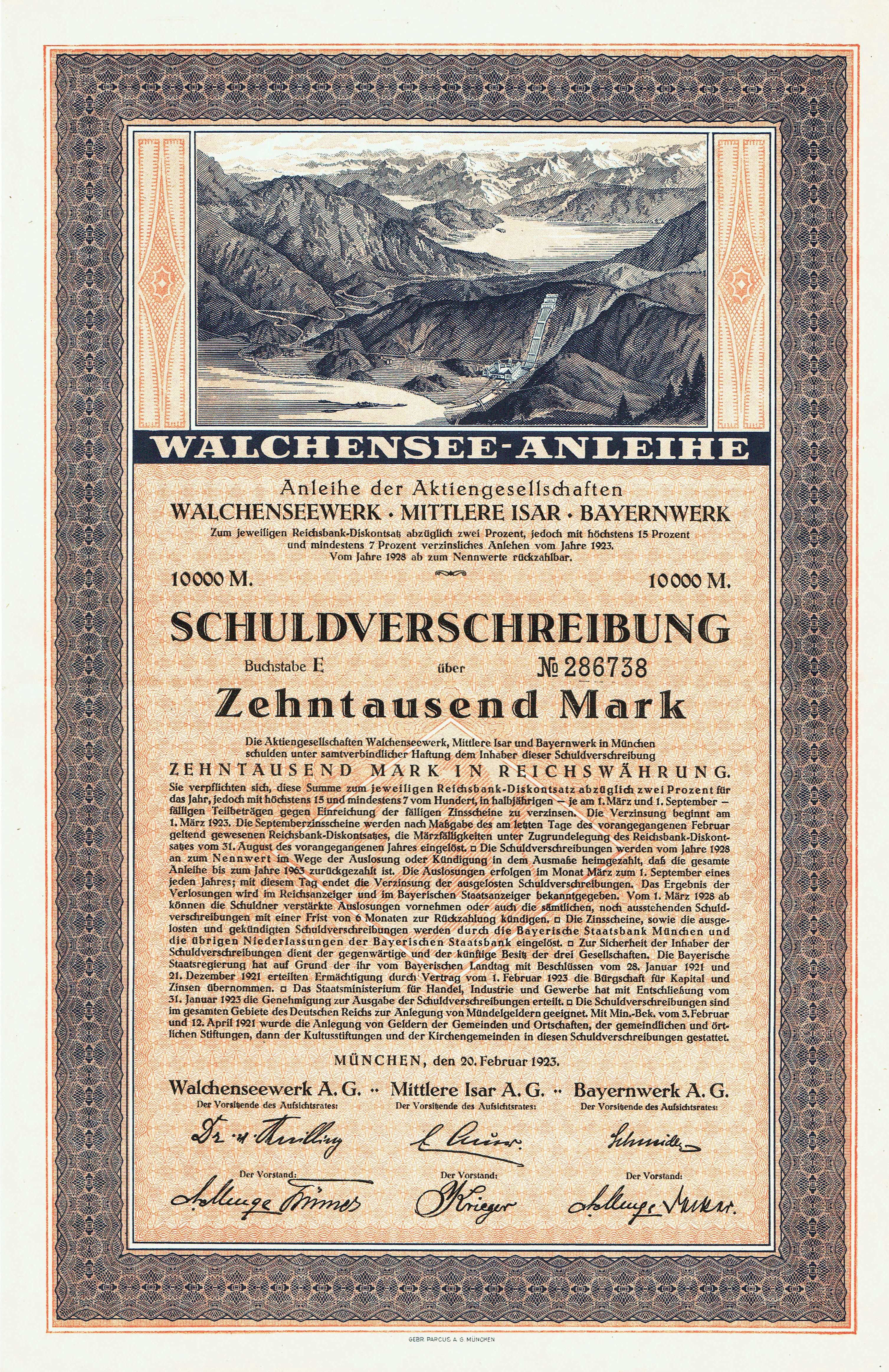 Walchensee bond of the companies Walchenseewerk AG, Mittlere Isar AG and Bayernwerk AG, issued 20. February 1923